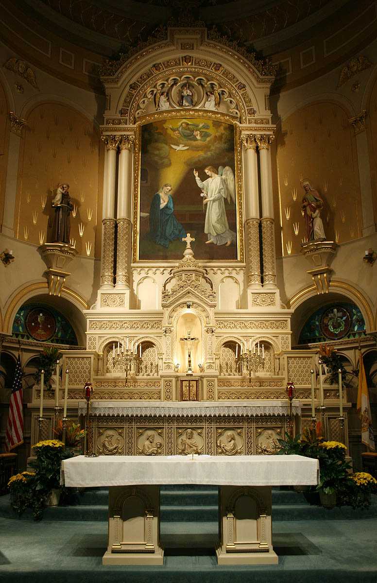 The hand-carved altarpiece at Old St. Mary's Church, Milwaukee, Wisconsin.